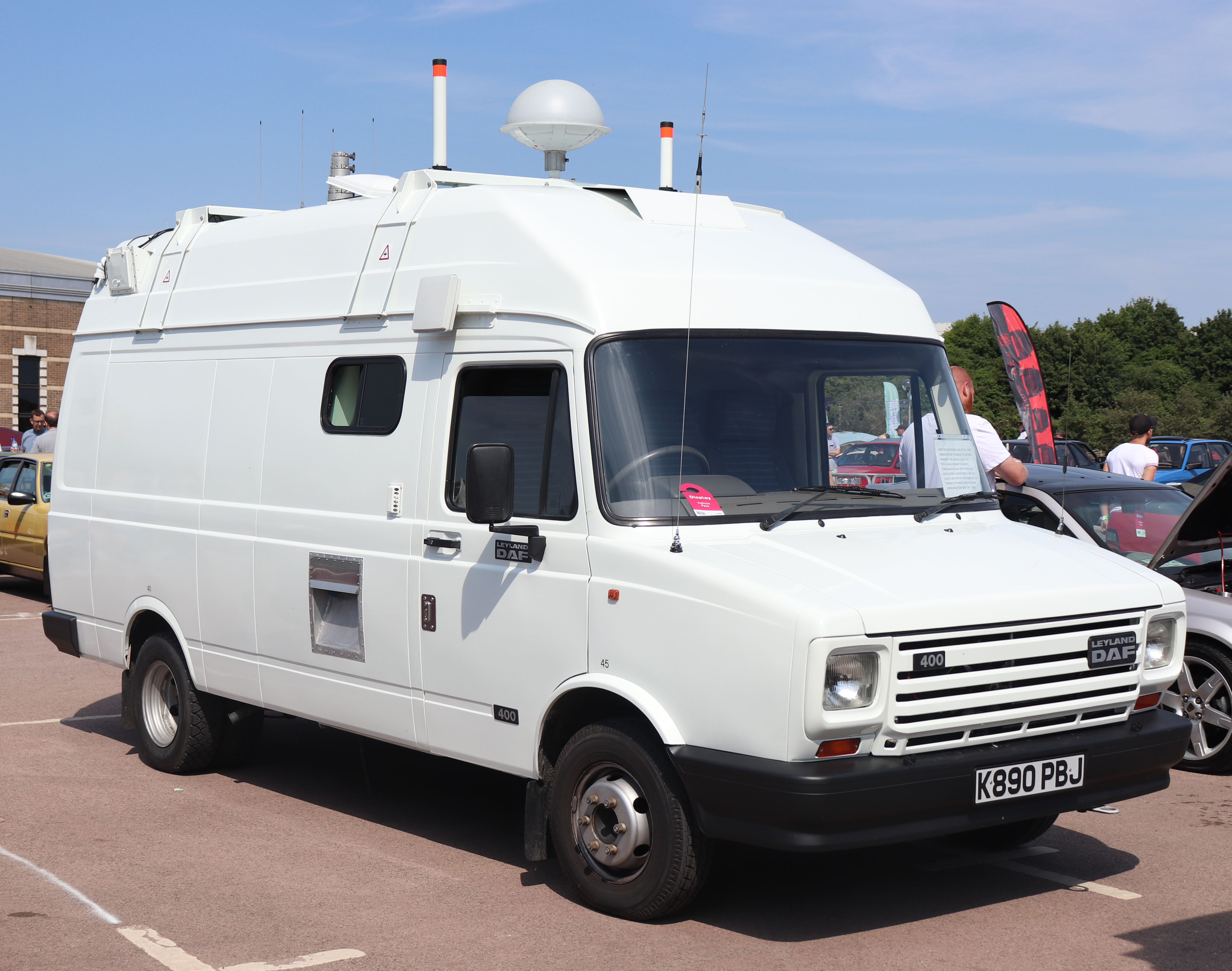 1992 Leyland DAF 400 2.0 Taken at the British Motor Museum BMC & Leyland Show 2018, Gaydon